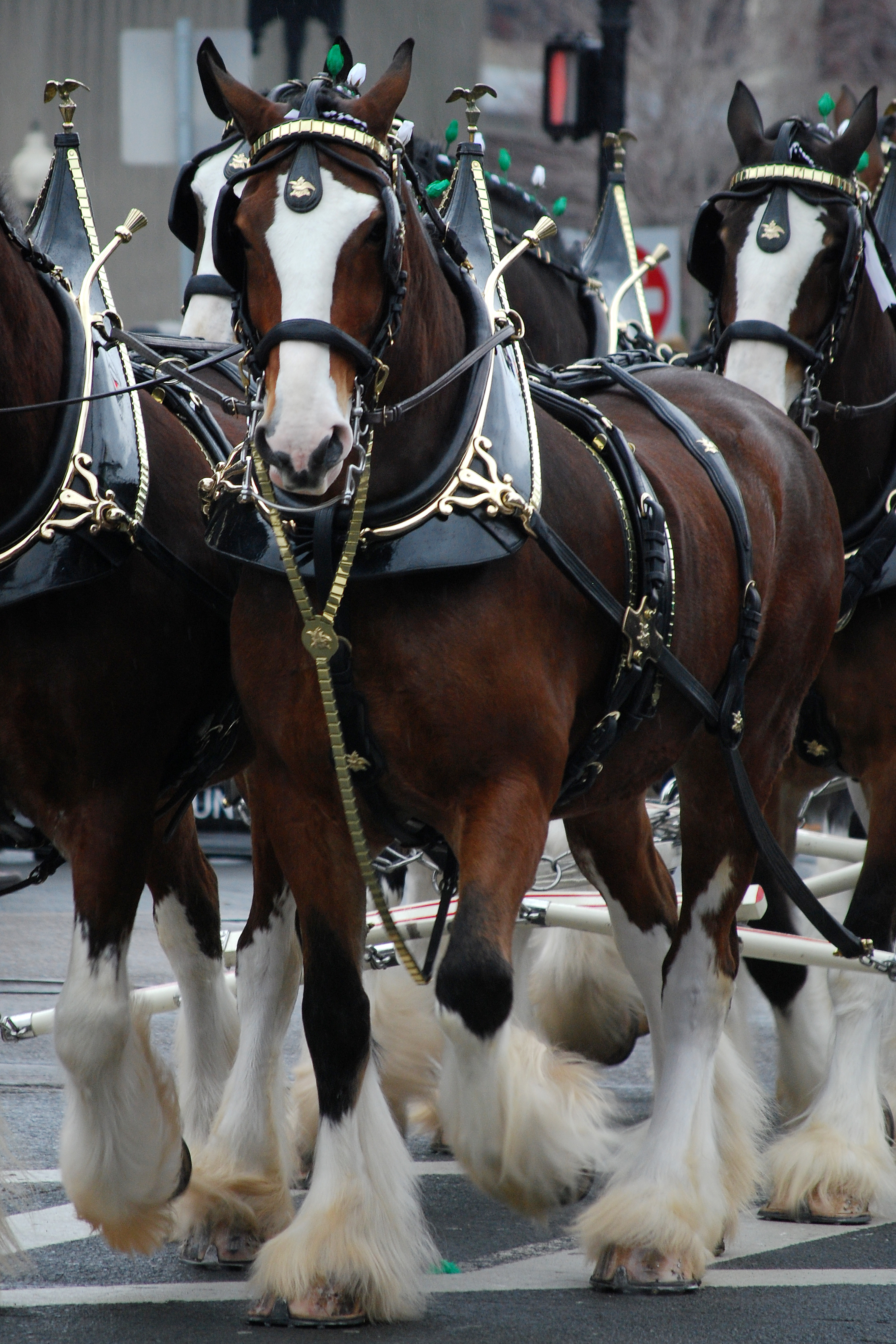 The Budweiser Clydesdales at the 2008 South Boston St. Patrick's Day Parade.